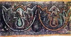 Mosaic from the Tsromi church.